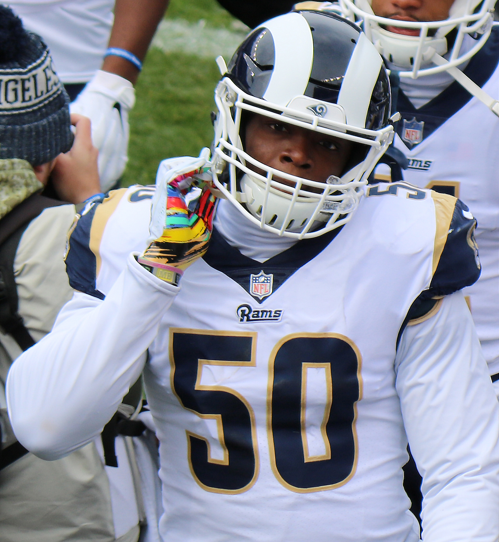 Samson Ebukam, a National Football League player.